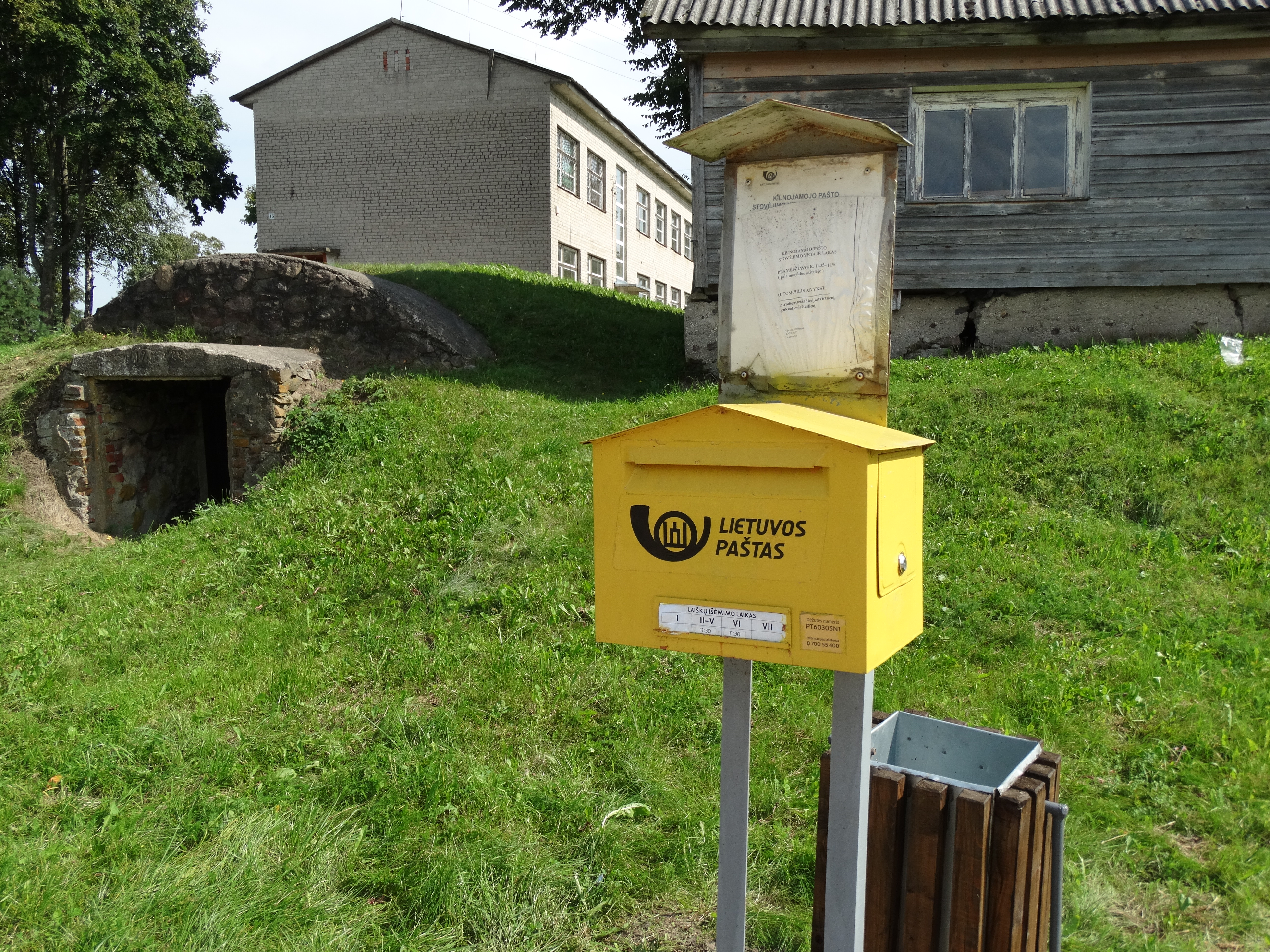 PO box, Pramedžiava, Raseiniai district, Lithuania